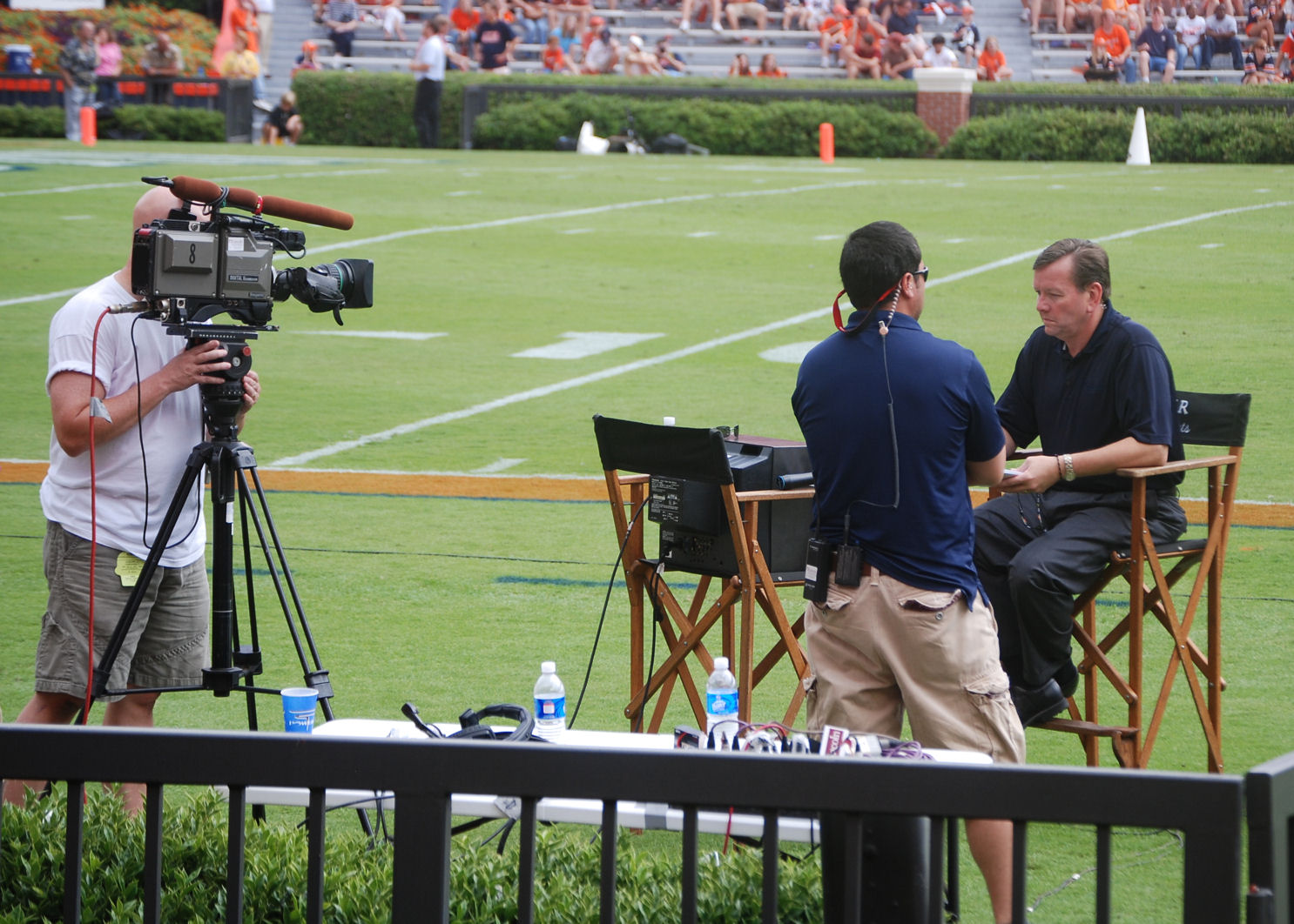 Lincoln Financial Sports sideline reporter Dave Baker does pregame reporting for the 2007 Auburn University vs. Vanderbilt University college football game.